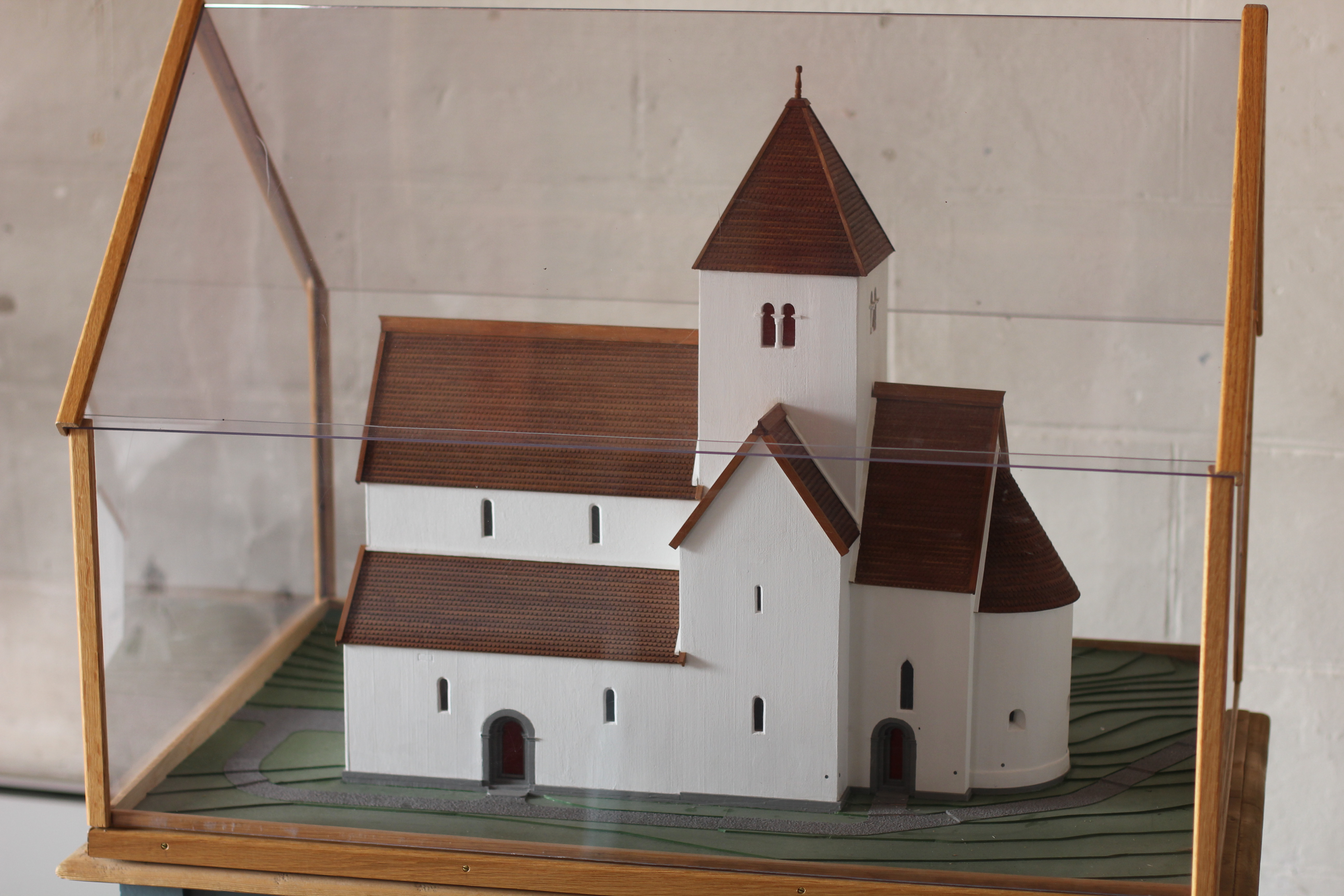 Model of a medieval version of Hoff church at Østre Toten.